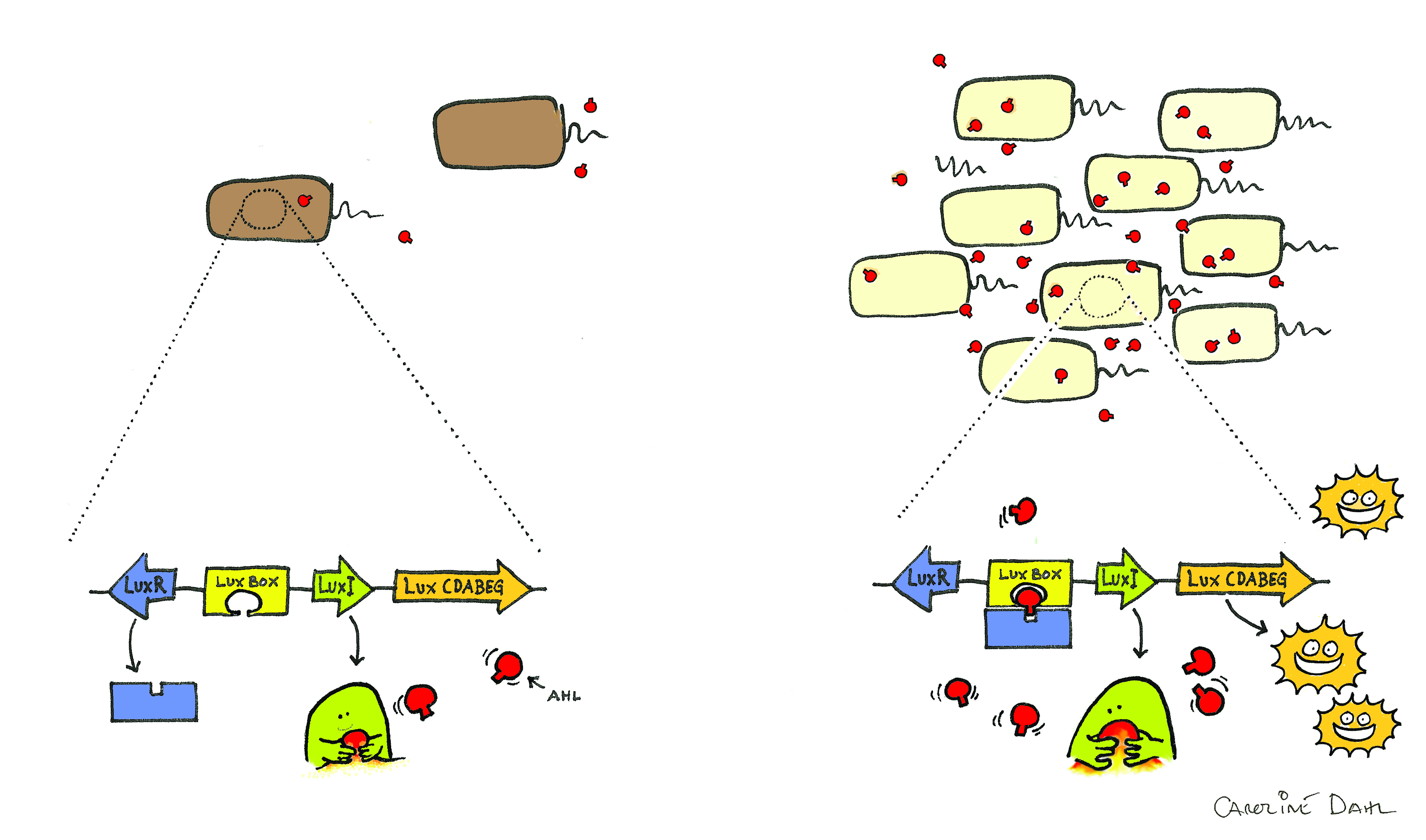 Model of quorum sensing in Vibrio fischeri. LuxI produces Acyl Homoserine Lactone (AHL) which makes it possible for LuxR to bind the DNA 'Lux box'. However a high concentration of AHL is required for LuxR-Lux box binding. This is achieved in the in the squid Vibrio fischeri's light organ. LuxR-Lux box binding activates luciferase genes (luxICDABEG), producing bioluminescent molecules and even more AHL.